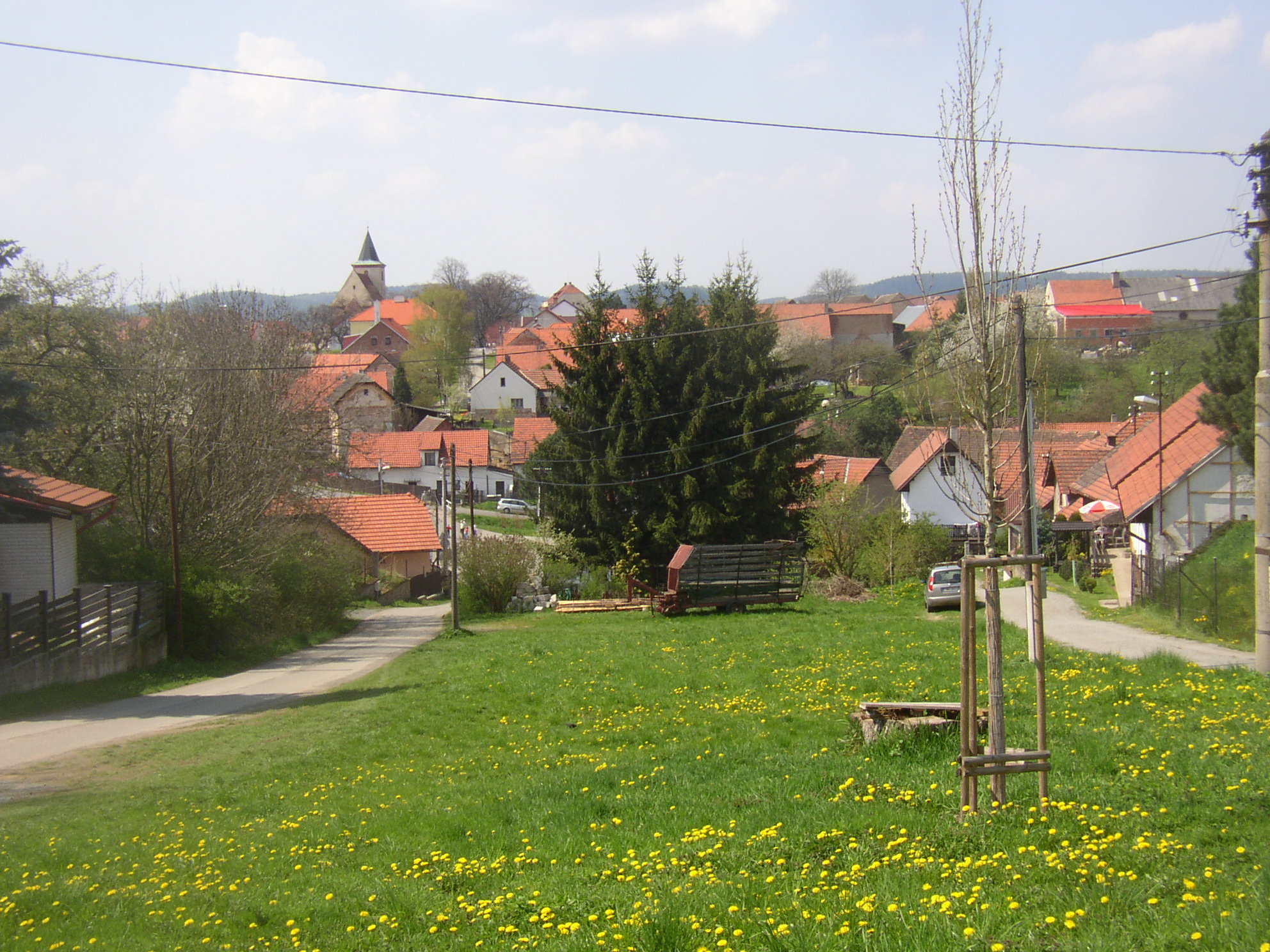 Hrusice, Prague-East District, Czech Republic. Centre of the village as seen from east.